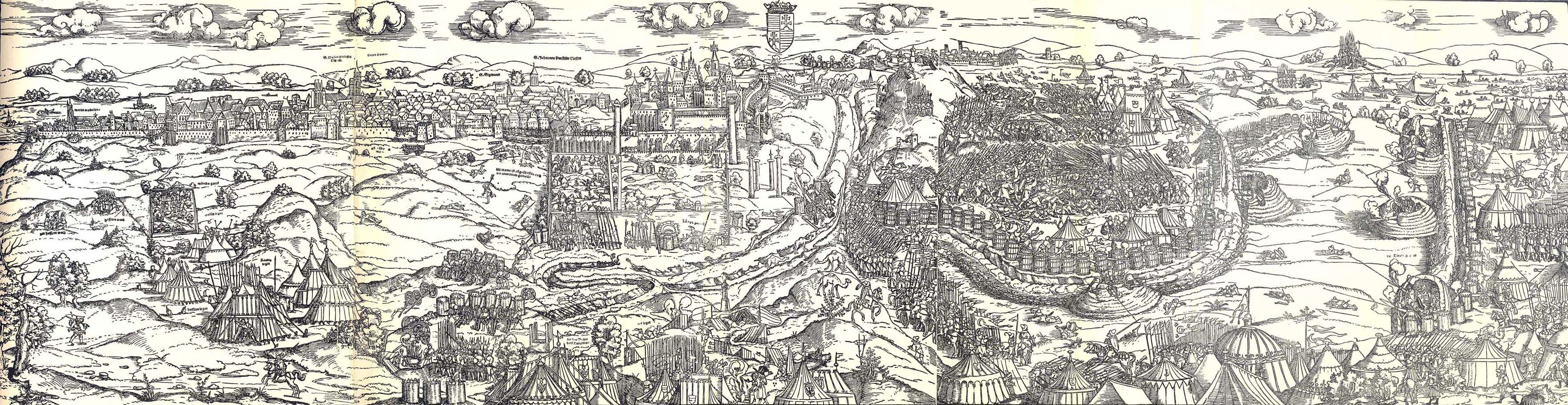 Siege of Buda in 1541,by Erhardt Schön from 1542